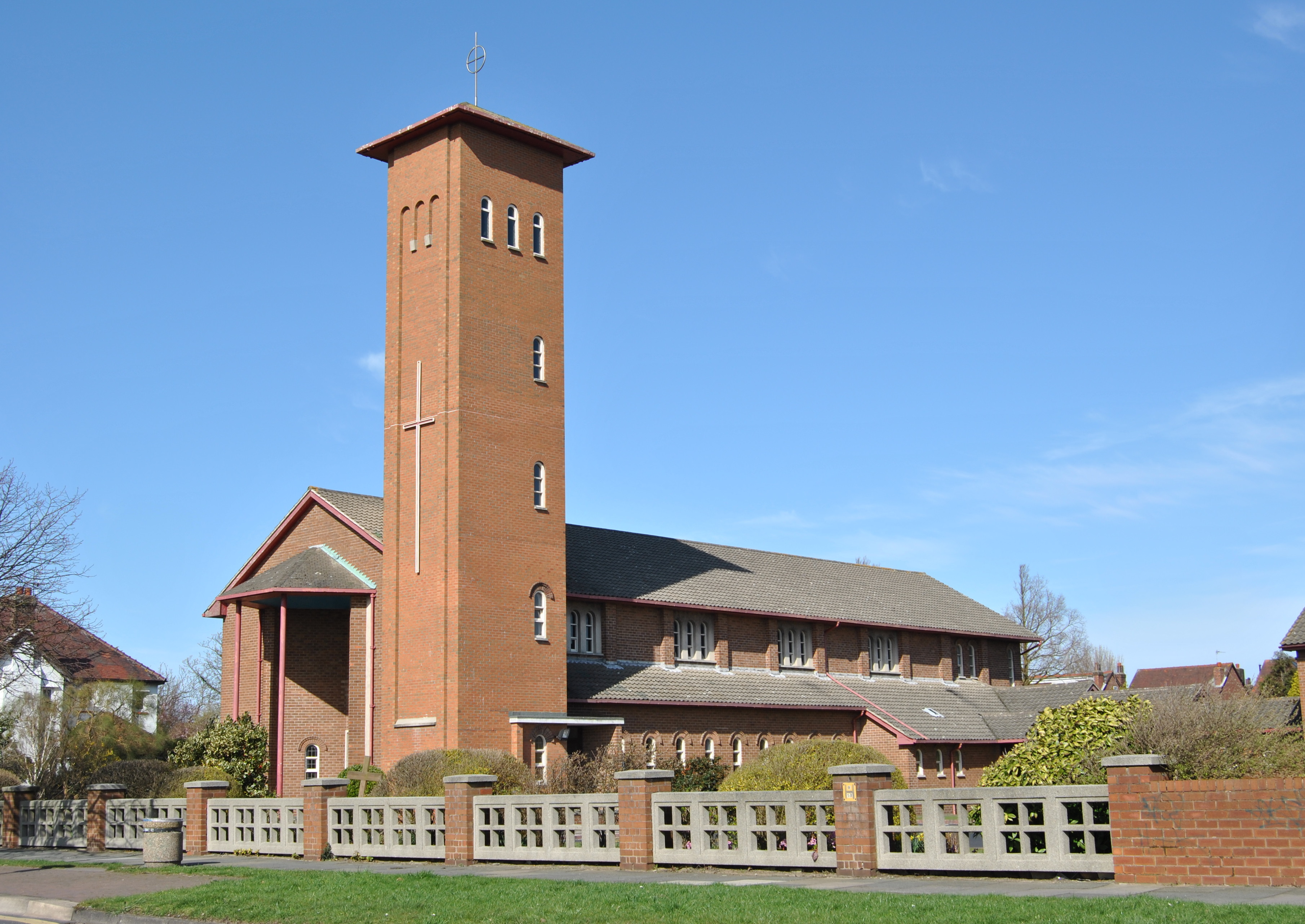 A photo of Our Lady of Lourdes and St. Joseph Church in Hillside near Southport